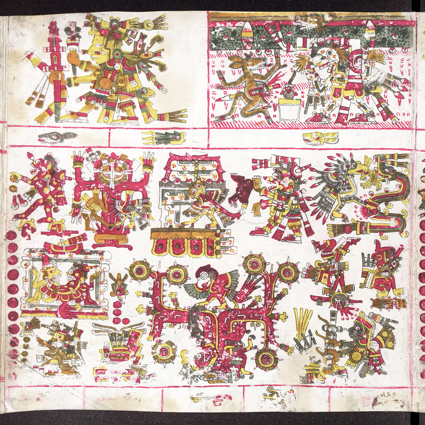 Page 52 of the Codex Borgia.